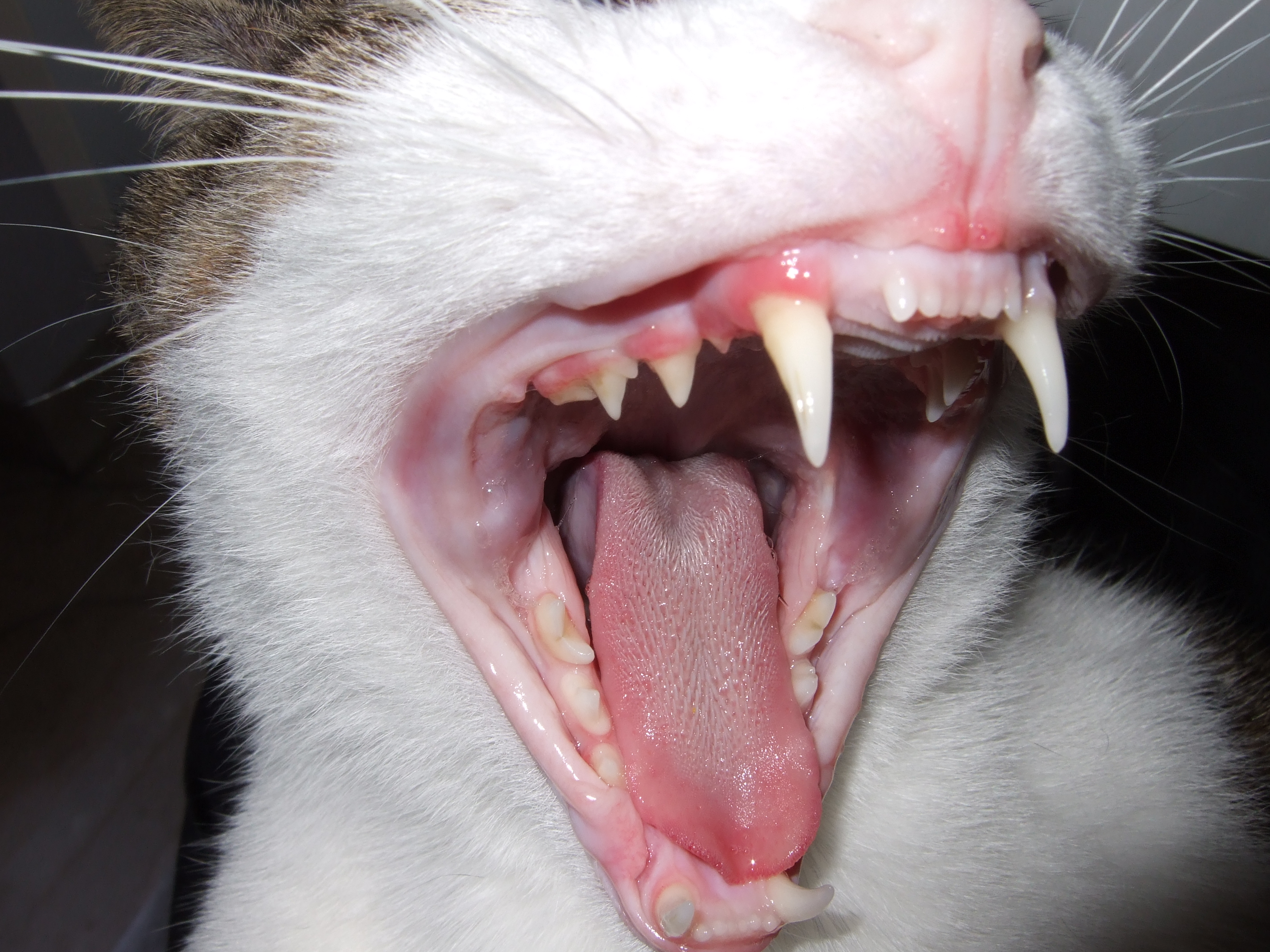 "My cat."Fangs